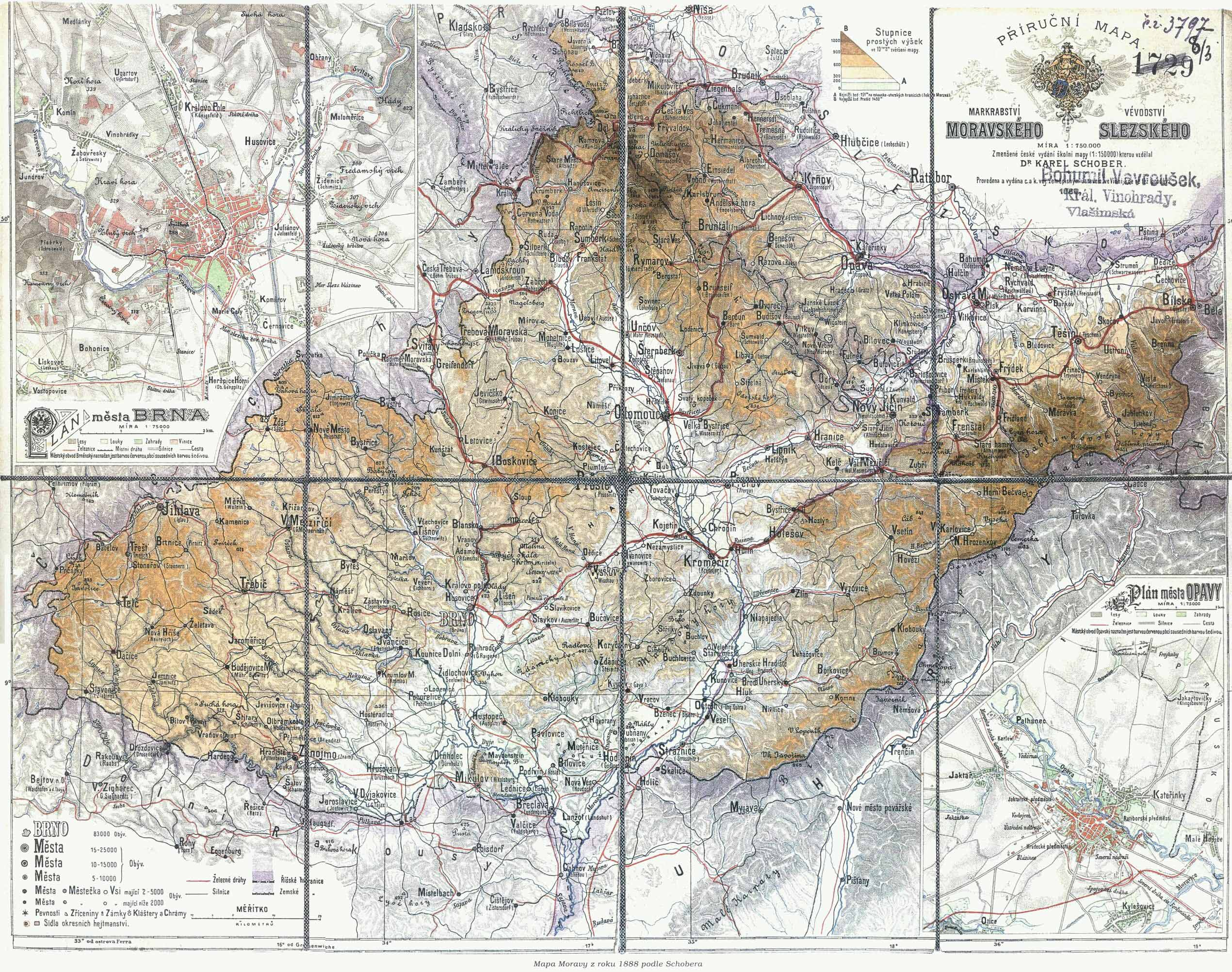 Schober's map of Moravia and Silesia (1888).